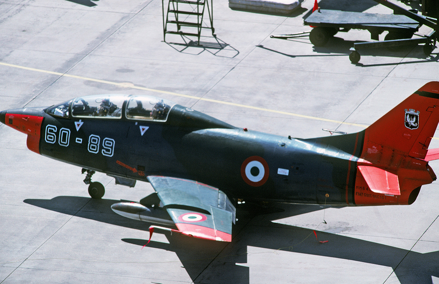 An Italian Fiat G91T training aircraft is parked on the flight line while transiting Bitburg Air Base.